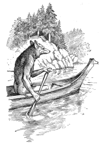 Anthropomorphic Coyote trickster, from North American Indigenous mythology, canoeing up the river.